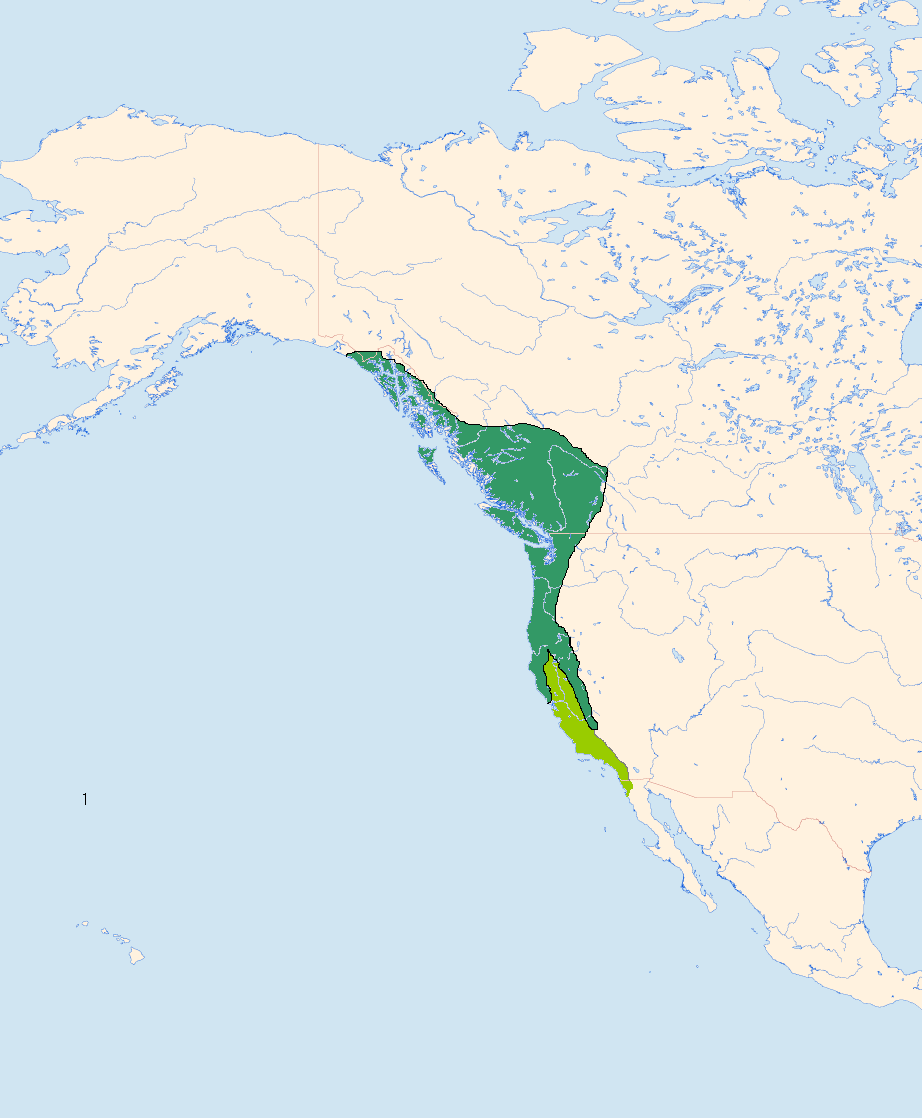 Distribution map of Sphrypicus ruber